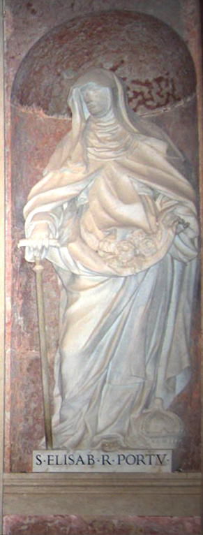 Statue of St.Elisabeth of Aragon, Queen of Portugal, the church in the Mafra National Palace; Mafra, Portugal